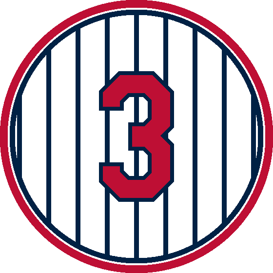 A #3 representing Harmon Killebrew's retired number circle at Target Field.